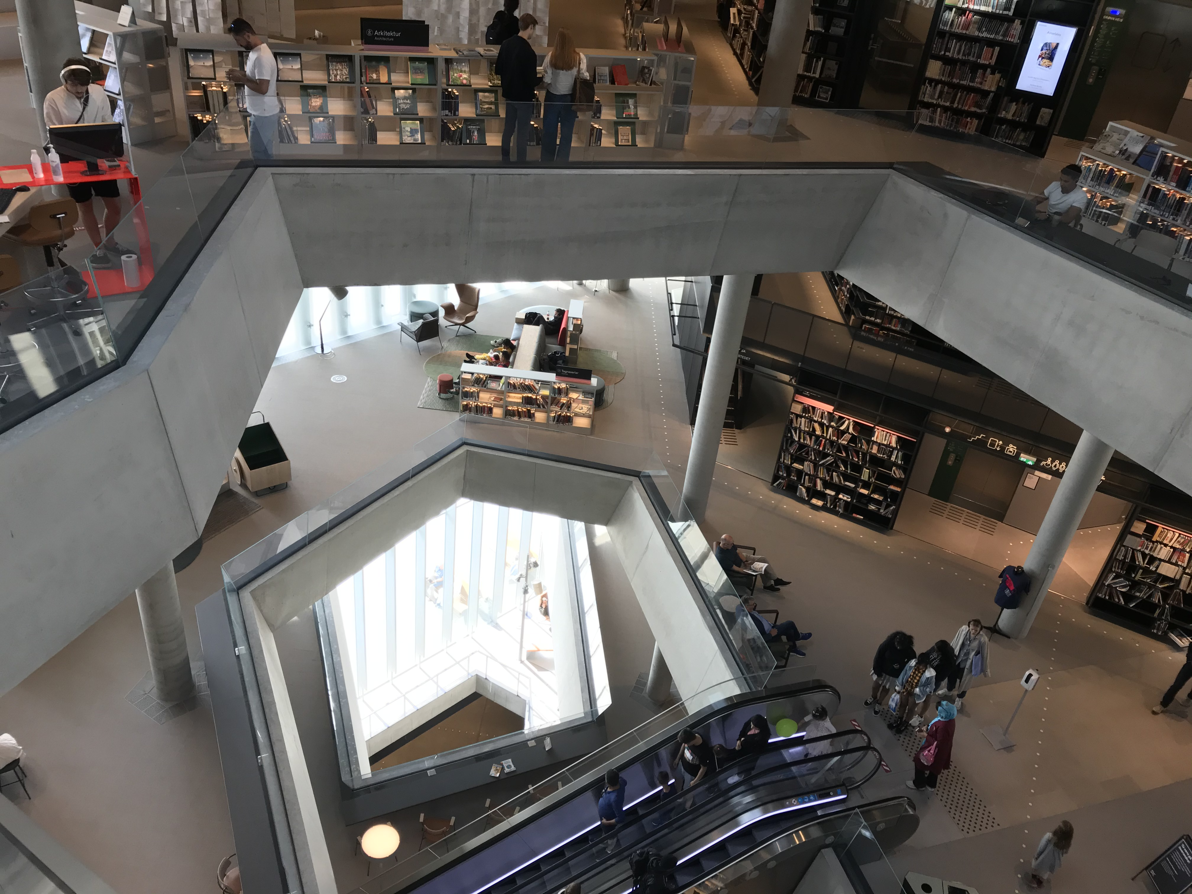 Interior of the Deichmann public library